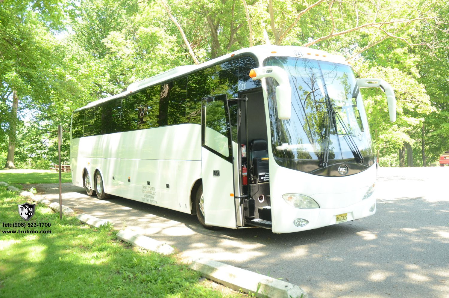 50 Passenger Party Bus with Lavatory